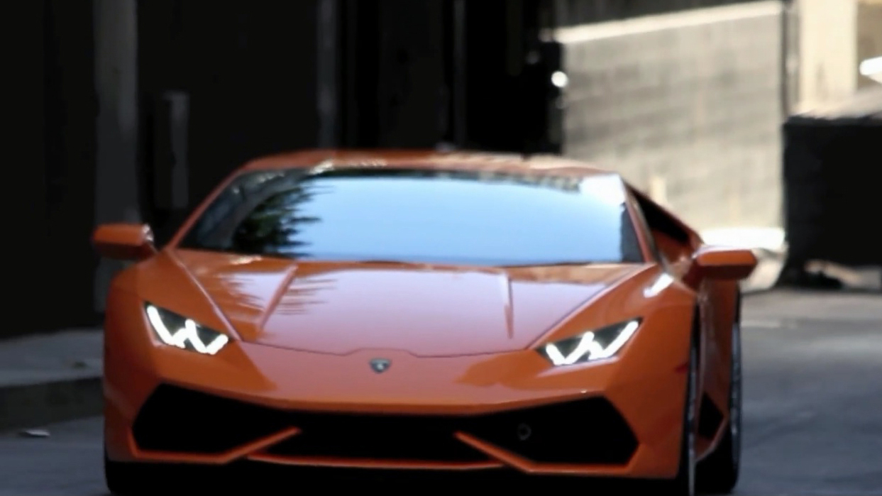 Lamborghini Huracán photographed while filming in the USA